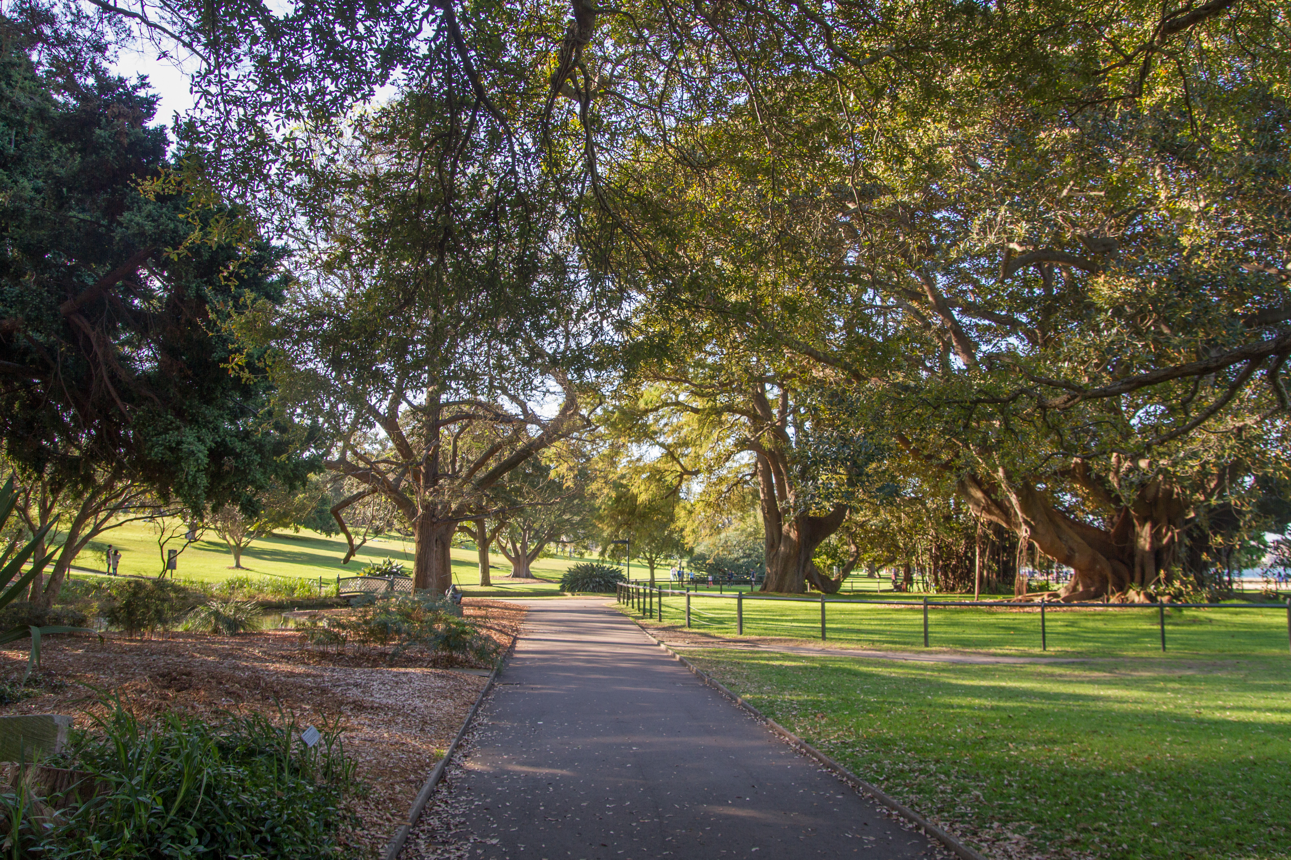 Royal Botanic Gardens, Sydney